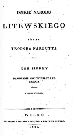 T. Narbutt title page Dzieje Narodu Litewskiego Tome 7